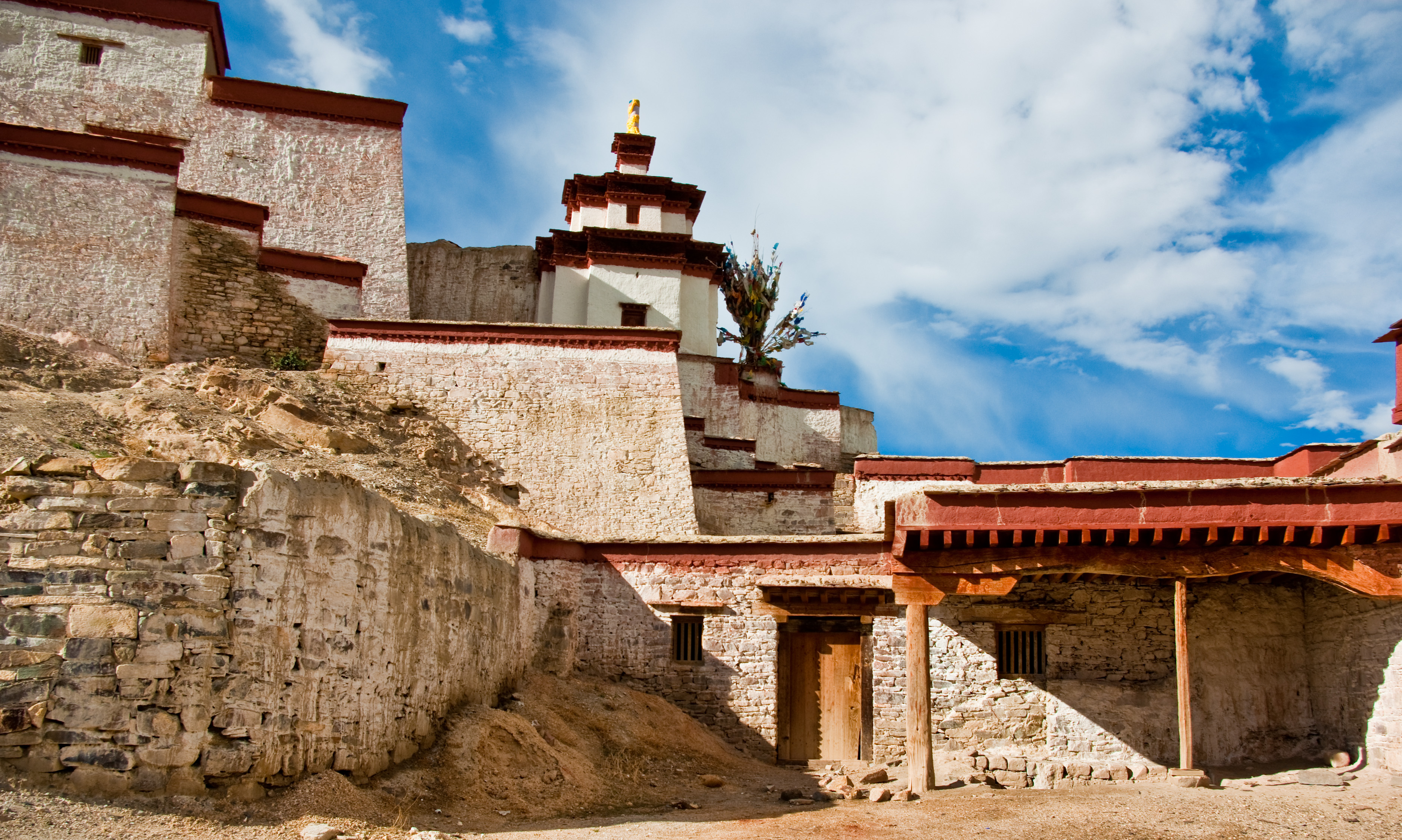 Gyantse Dzong